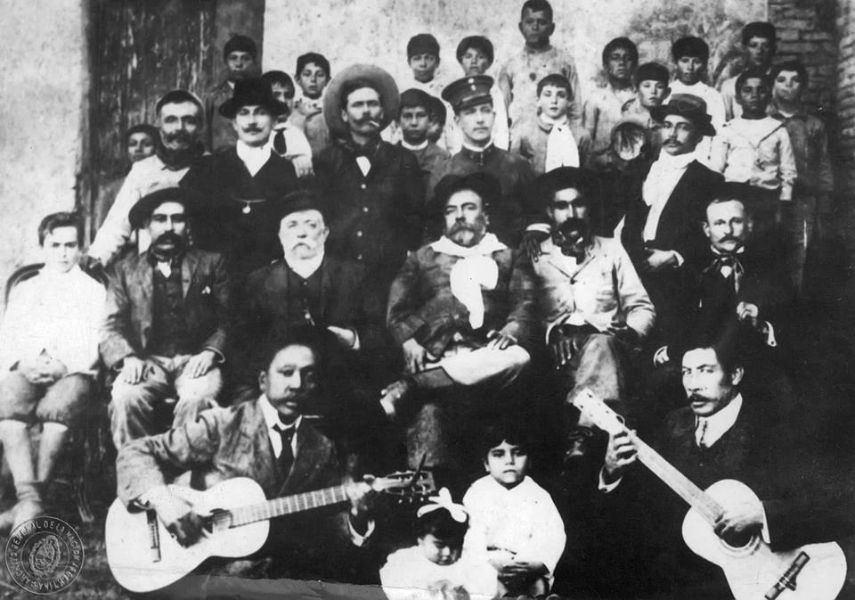 Gabino Ezeiza and other "payadores" singing to celebrate the agreement between Argentina and Chile. The meeting was held in Rio Negro, Argentina.